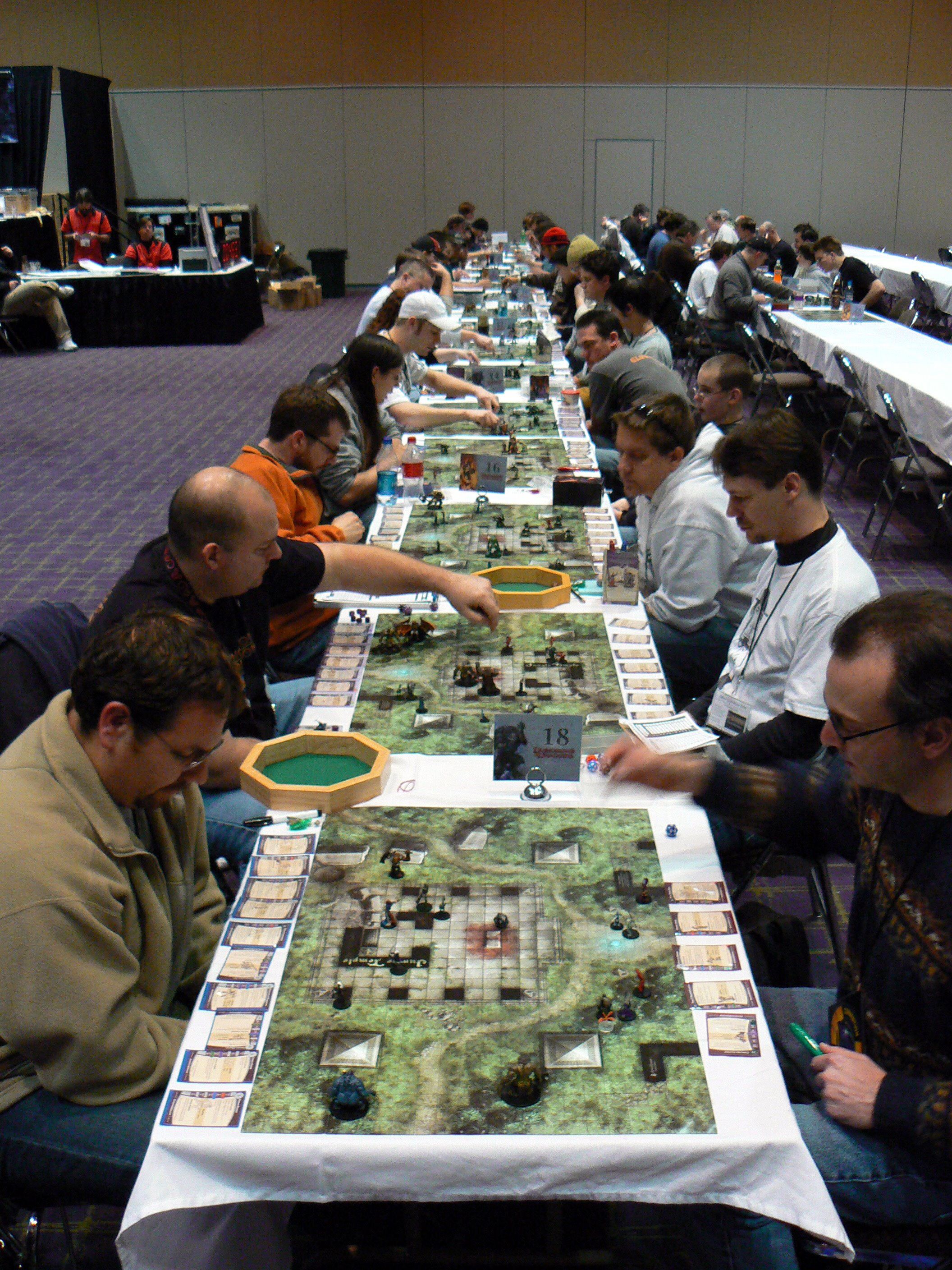 Playing Dungeons & Dragons. A "limited" format tournament of Dungeons & Dragons Miniatures, where "limited" refers to the format. In this format, you draw your figures from two fresh packs of miniatures only, as opposed to using your presumably extensive personal collection.